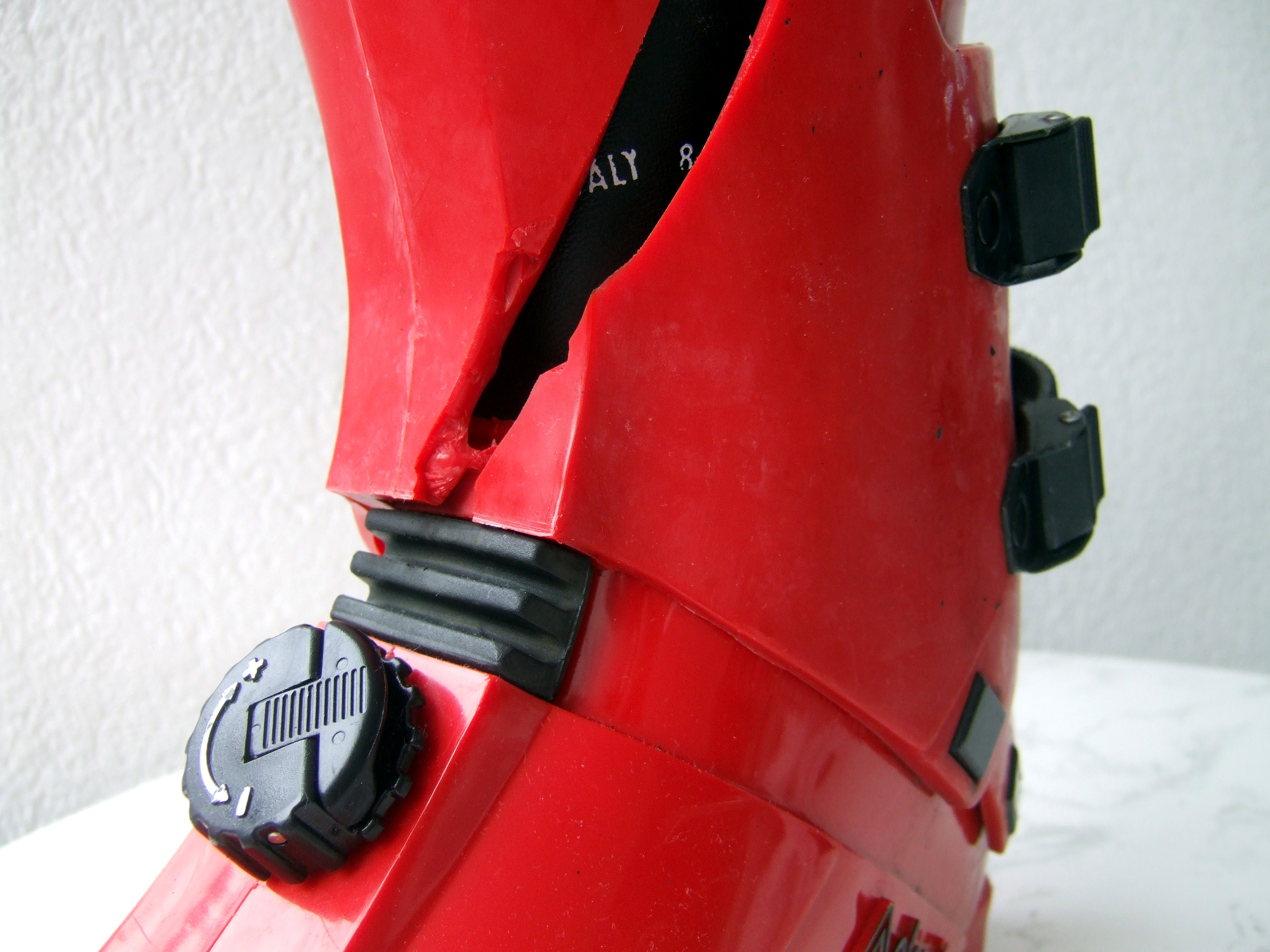 Hard (polyurethane) shell of a ski boot broken by material fatigue